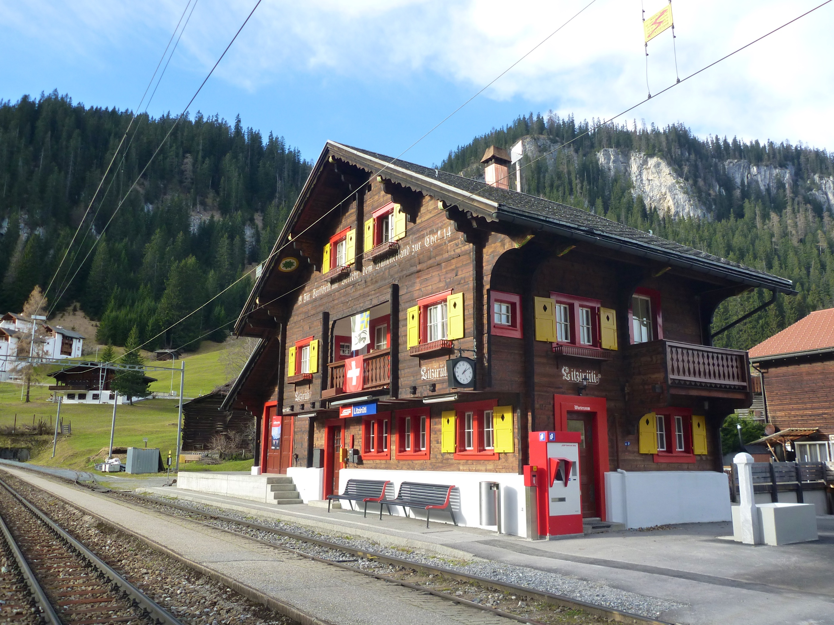 Litzirüti train station after renovation in 2014